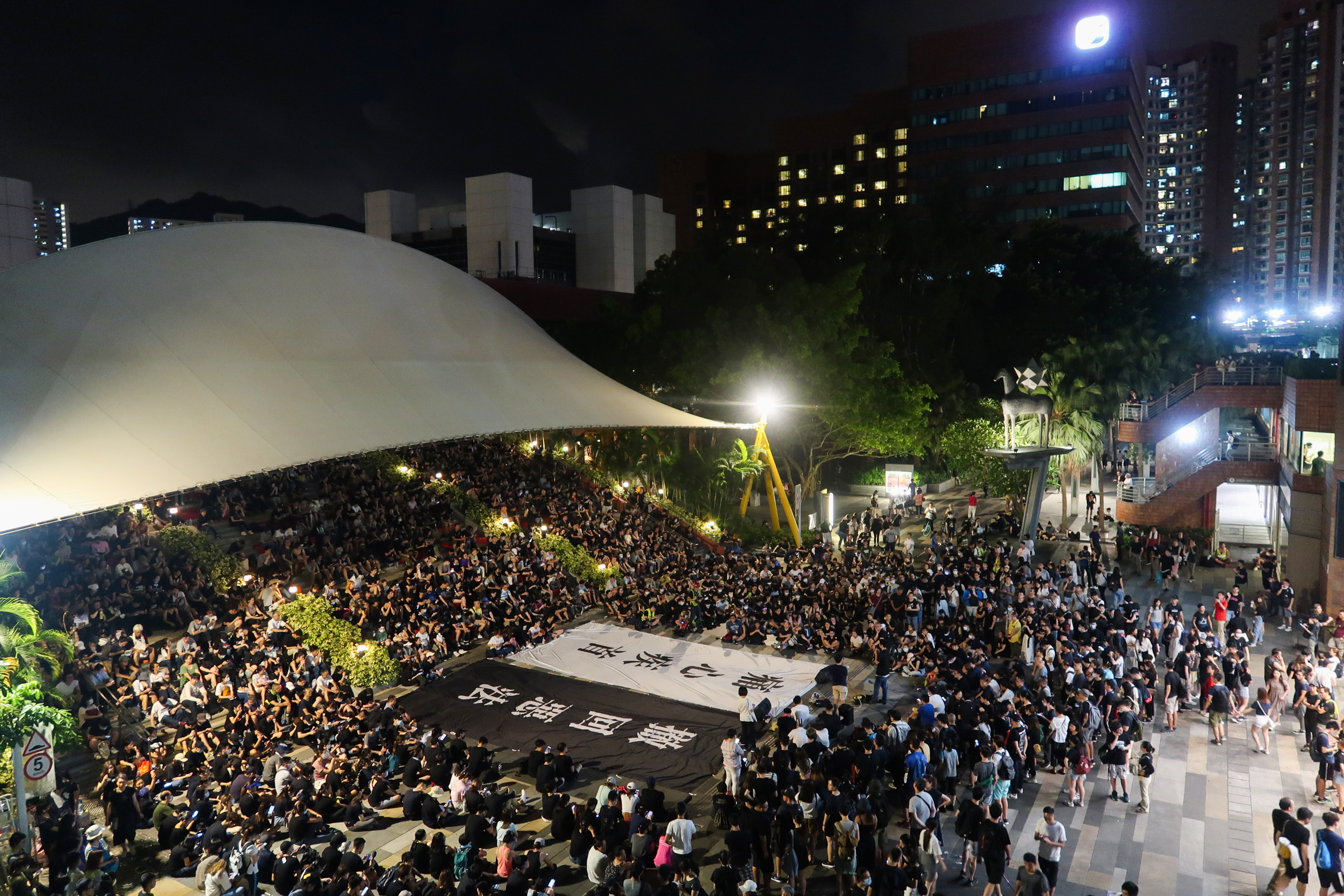 Demonstration against extradition bill, Shatin Town Hall assembly